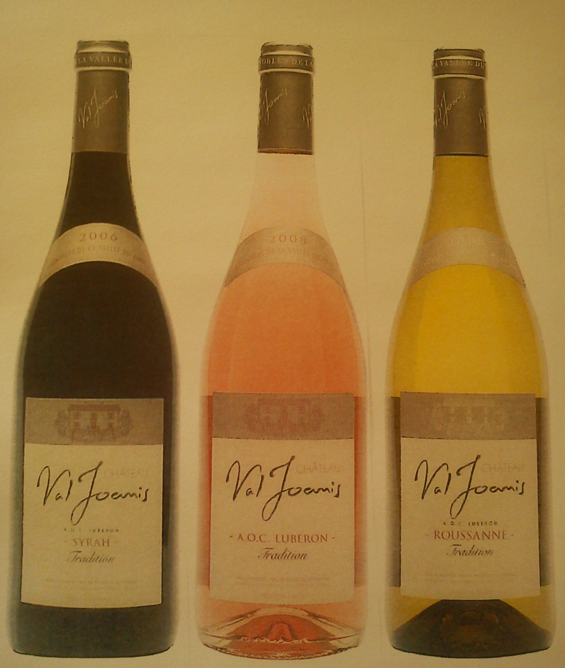 Wine AOC Luberon from Val Joanis Castel